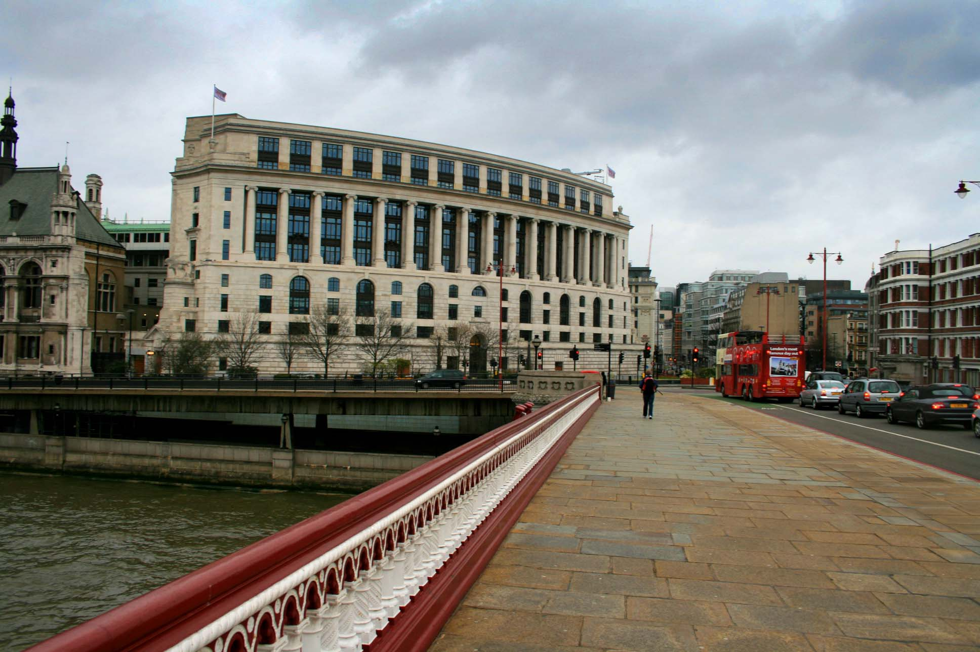 Unilever House, Blackfriars, London, UK, designed by James Lomax-Simpson and Sir John Burnet and Partners 1930-33